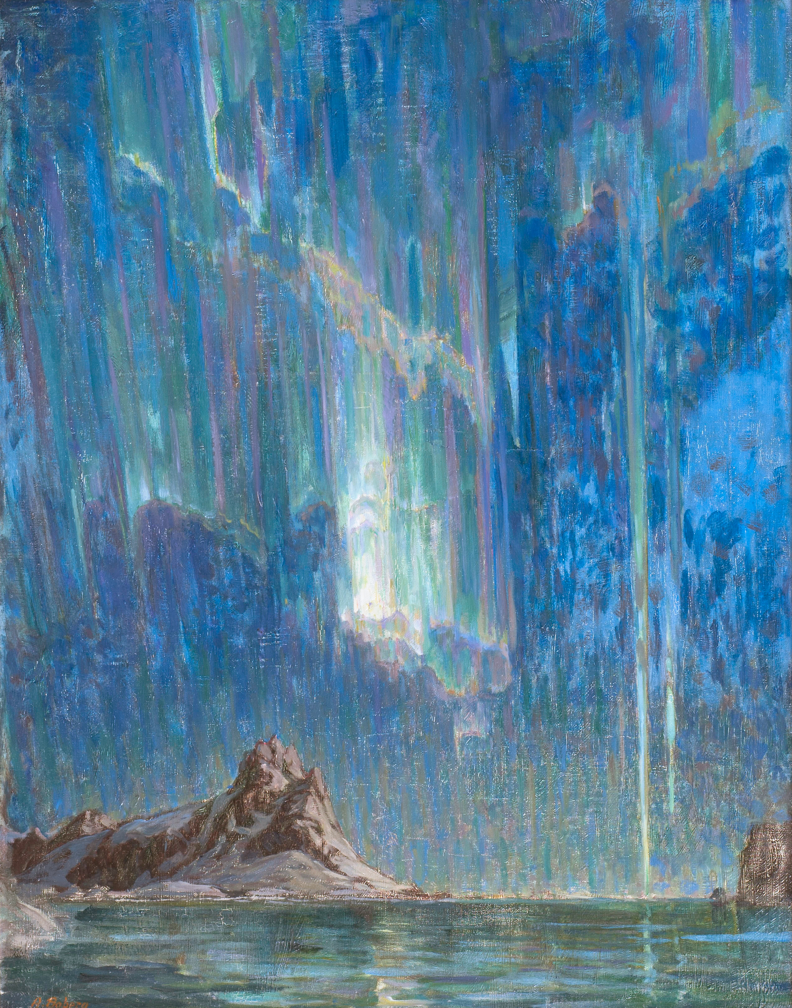 Northern Lights. Study from North Norway oil on canvas 97 x 75 cm signed b.l.: A. Boberg